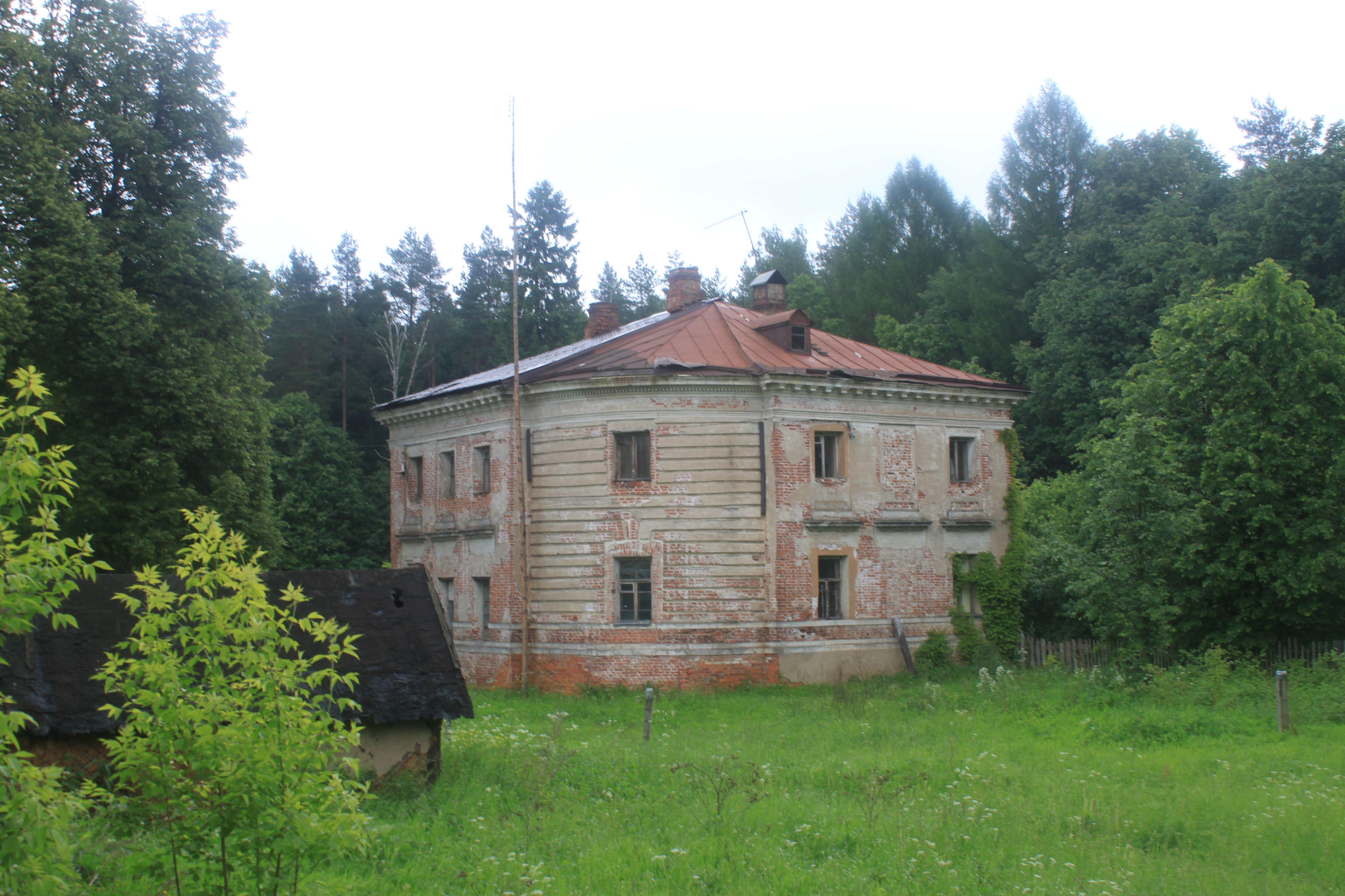 Wikiexpedition to Kaluga 2016-06-11.